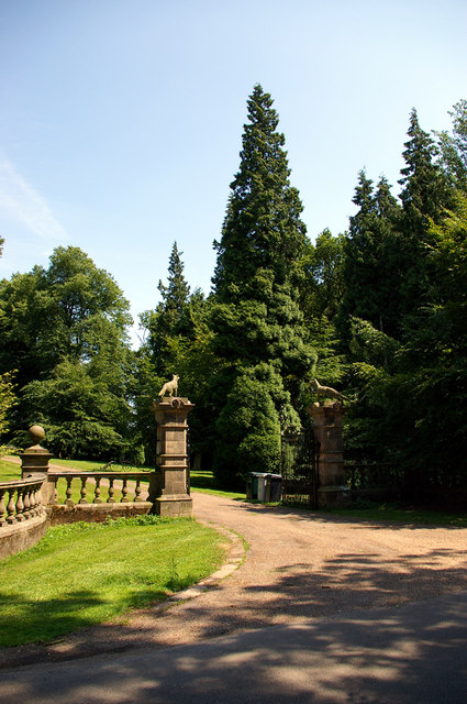 Entry to Girsby Manor. Pevsner says "GIRSBY MANOR: Demolished. At the time of writing only a neo-Baroque gateway of 1909 and the entrance gate and screen of 1840 remain." There are some fine specimen conifers in the grounds.